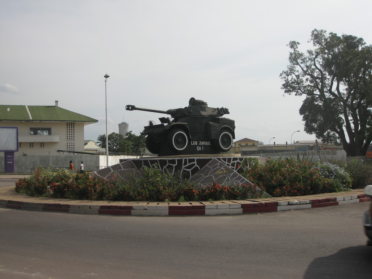 The 5th June Square in Brazzaville in front of the residence of the president of the Congo. The vehicle is an Eland Mk7 armoured car with a 90mm gun aimed towards the presidential residence. The French inscription on the base reads, "never this more".